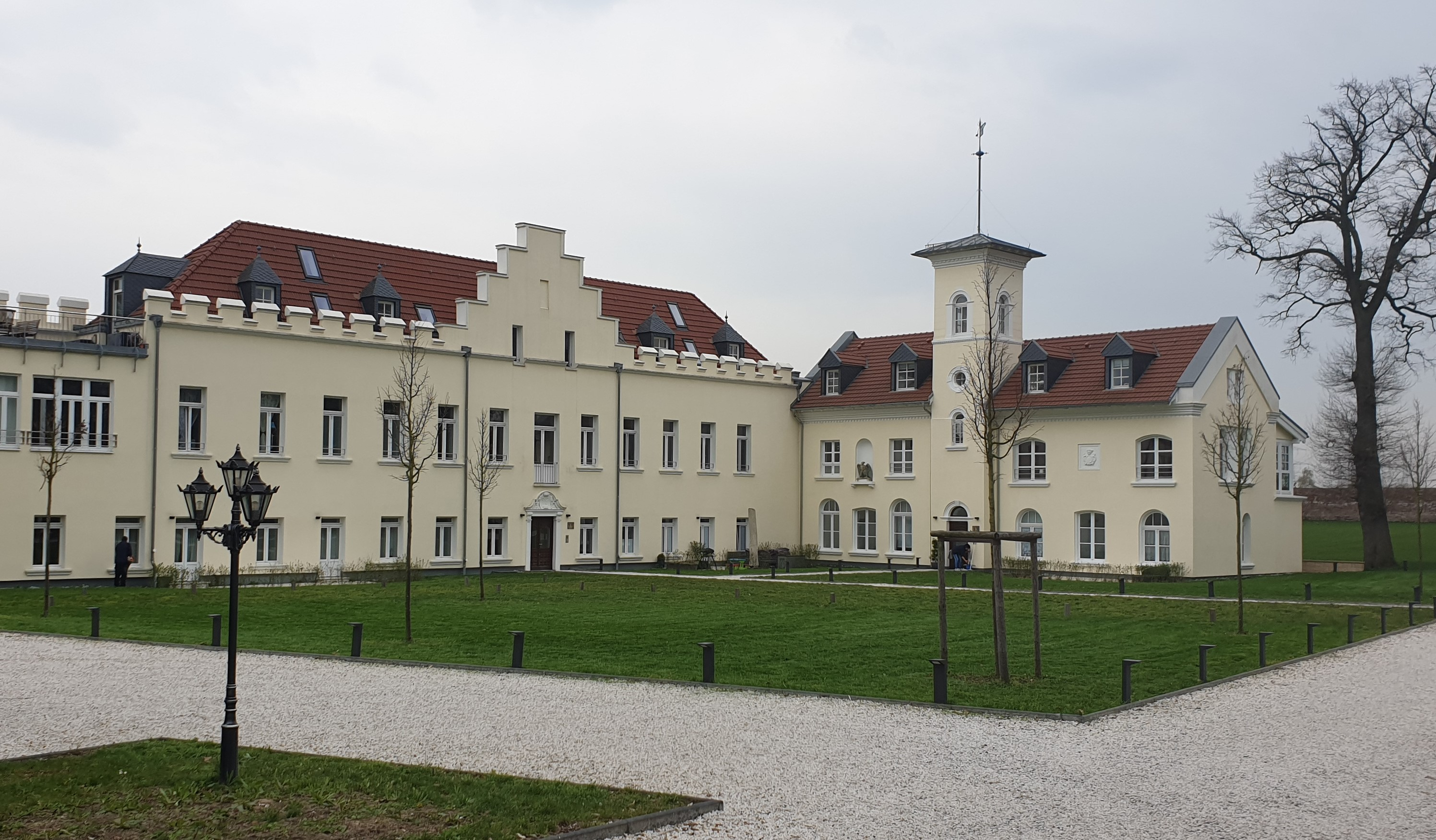 Godorfian Castle in Berzdorf, a district of the City of Wesseling.